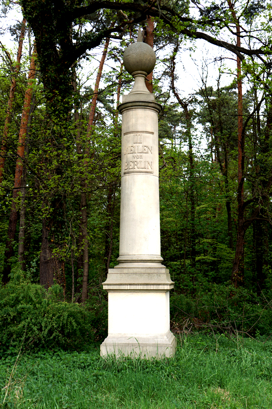 Inscription: III Meilen von Berlin, i.e. 3 Prussian miles from Berlin (equalling 14.0414 statute miles)